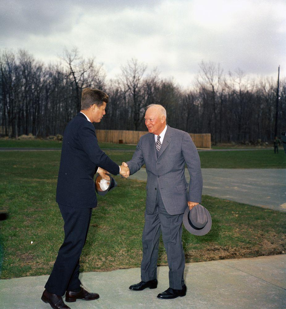 President Kennedy and President Eisenhower meet at Camp David, Maryland, April 1961